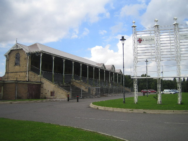 The Grandstand. This was the main grandstand for the Lincoln race course. The course closed in 1964 and the Lincoln Handicap was moved and still takes place at Doncaster.